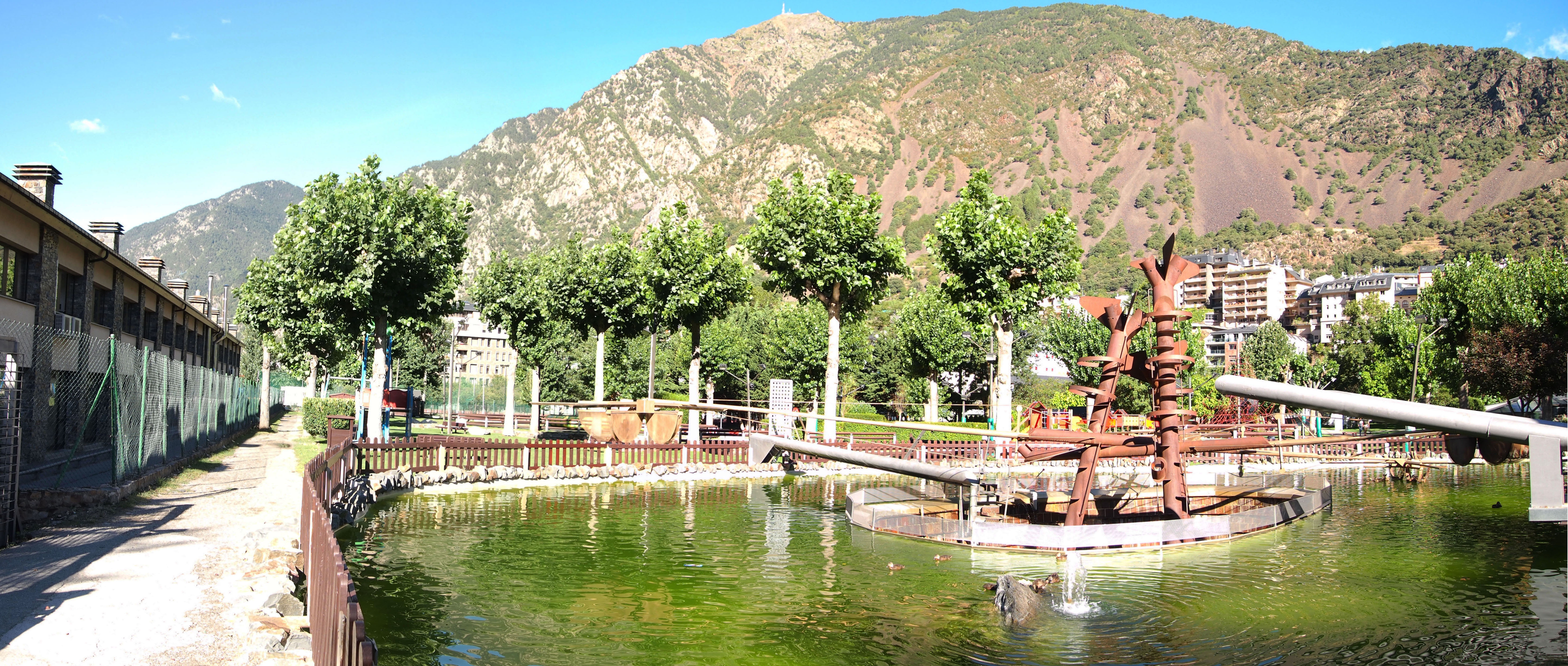 View in Parc Central, Andorra la Vella. This photograph was taken with an Olympus E-PL1